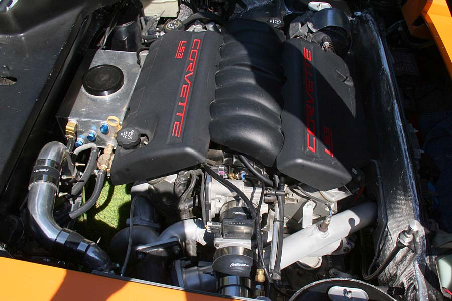 Customized Fiero with Corvette LS3 engine.